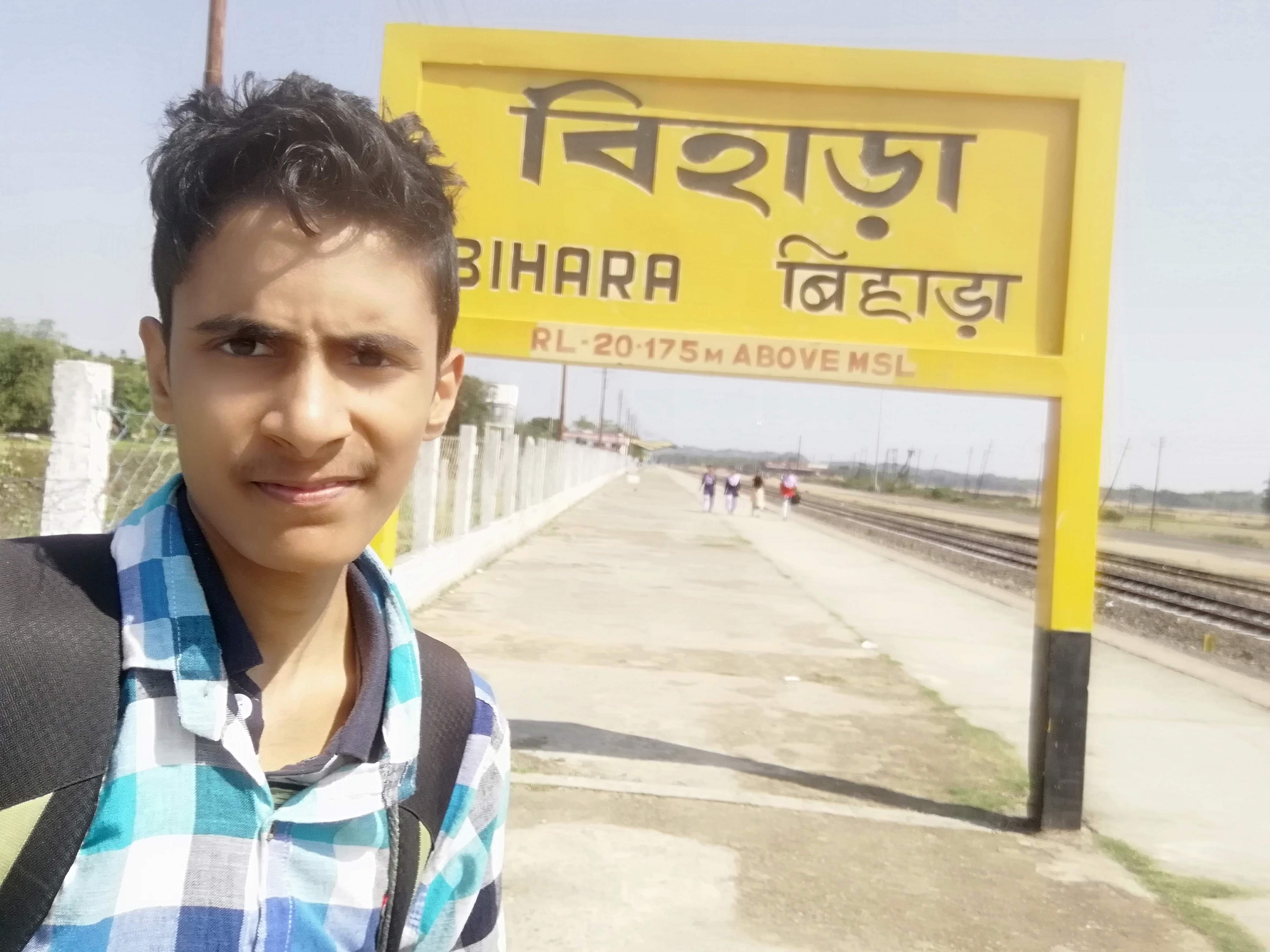 Bihara Tuition Physics